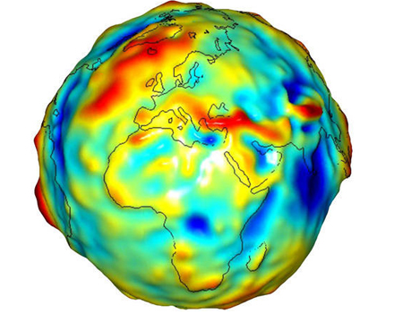 A gravity model created with data from NASA's GRACE mission.